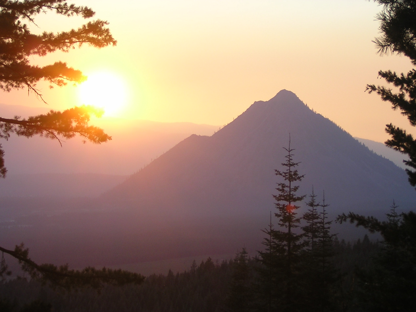 Sunset over Black Butte, near Mount Shasta, CA. Taken 8-3-2007